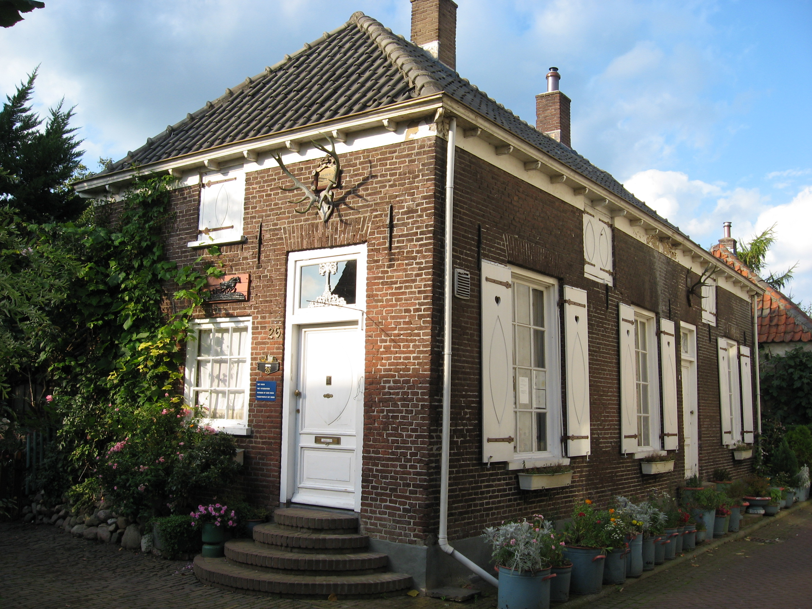 Herman Kip's farm in Zutphen